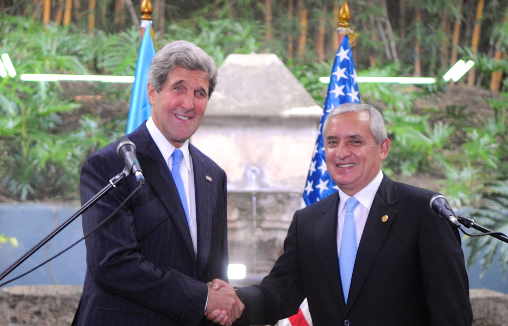 U.S Secretary of State John Kerry delivers remarks with Guatemalan President Otto Perez Molina in Antigua Guatemala on June 4, 2013. [State Department photo/ Public Domain]